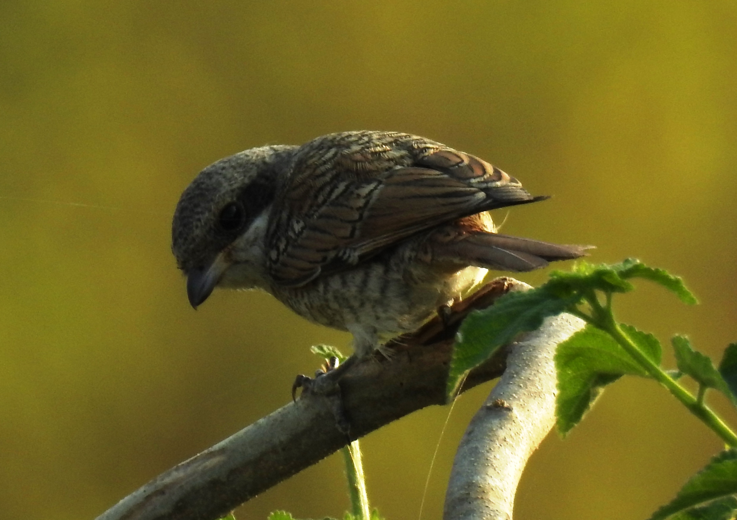 Bay-backed Shrike Lanius vittatus Juvenile. Photographed by Dr. Raju Kasambe at Amravati, Maharashtra, India.